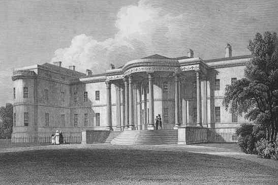 Luton Hoo in Bedfordshire, England in the 1820s. This shows the building as designed by Robert Adam and before the alterations made by Robert Smirke, and Mawes and Davis. Image from Jones's View of the Seats of Noblemen and Gentlemen (1829).